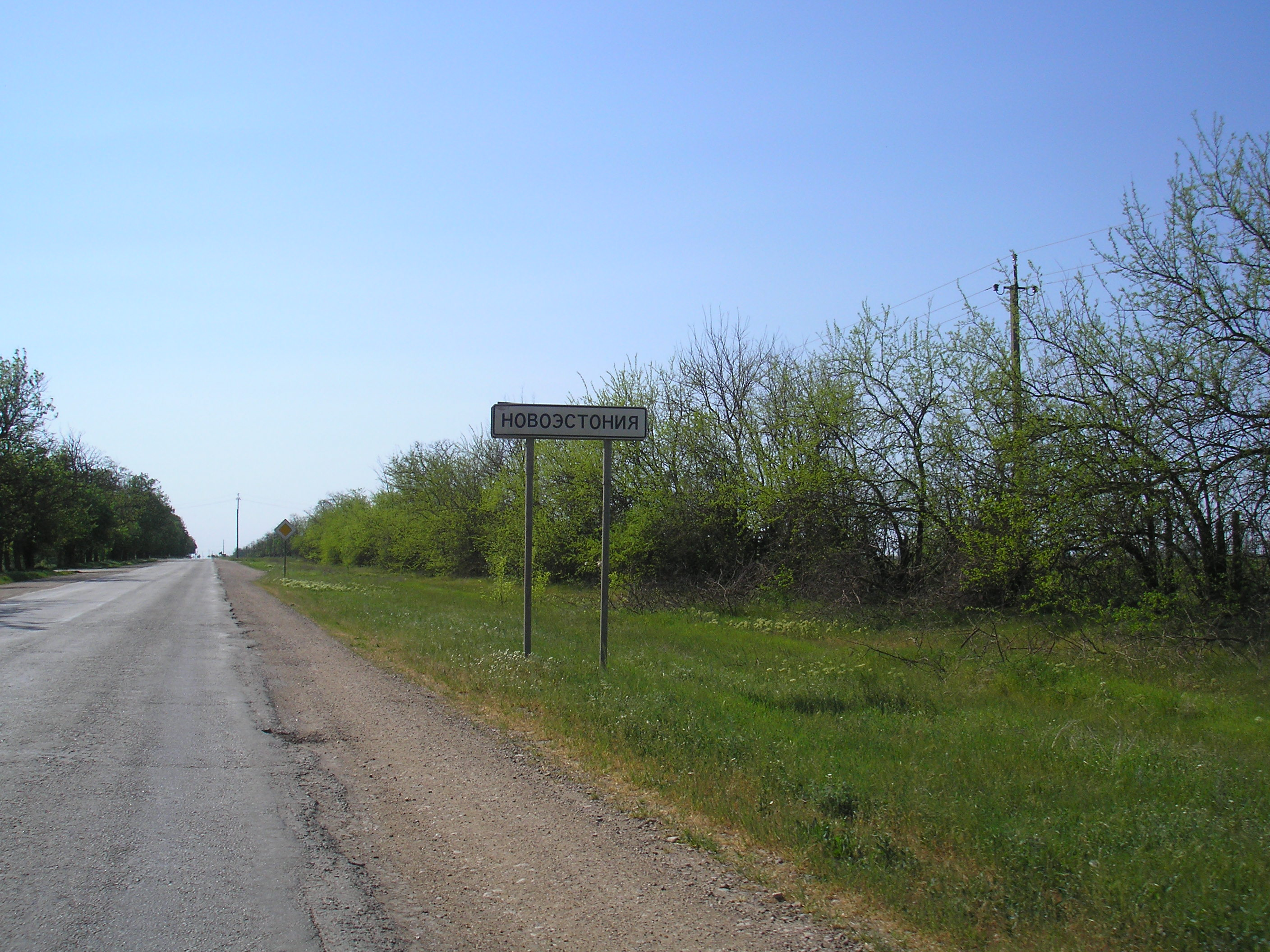 The entrance to the village Novoestoniya, Krasnogvardeysky region, Crimea